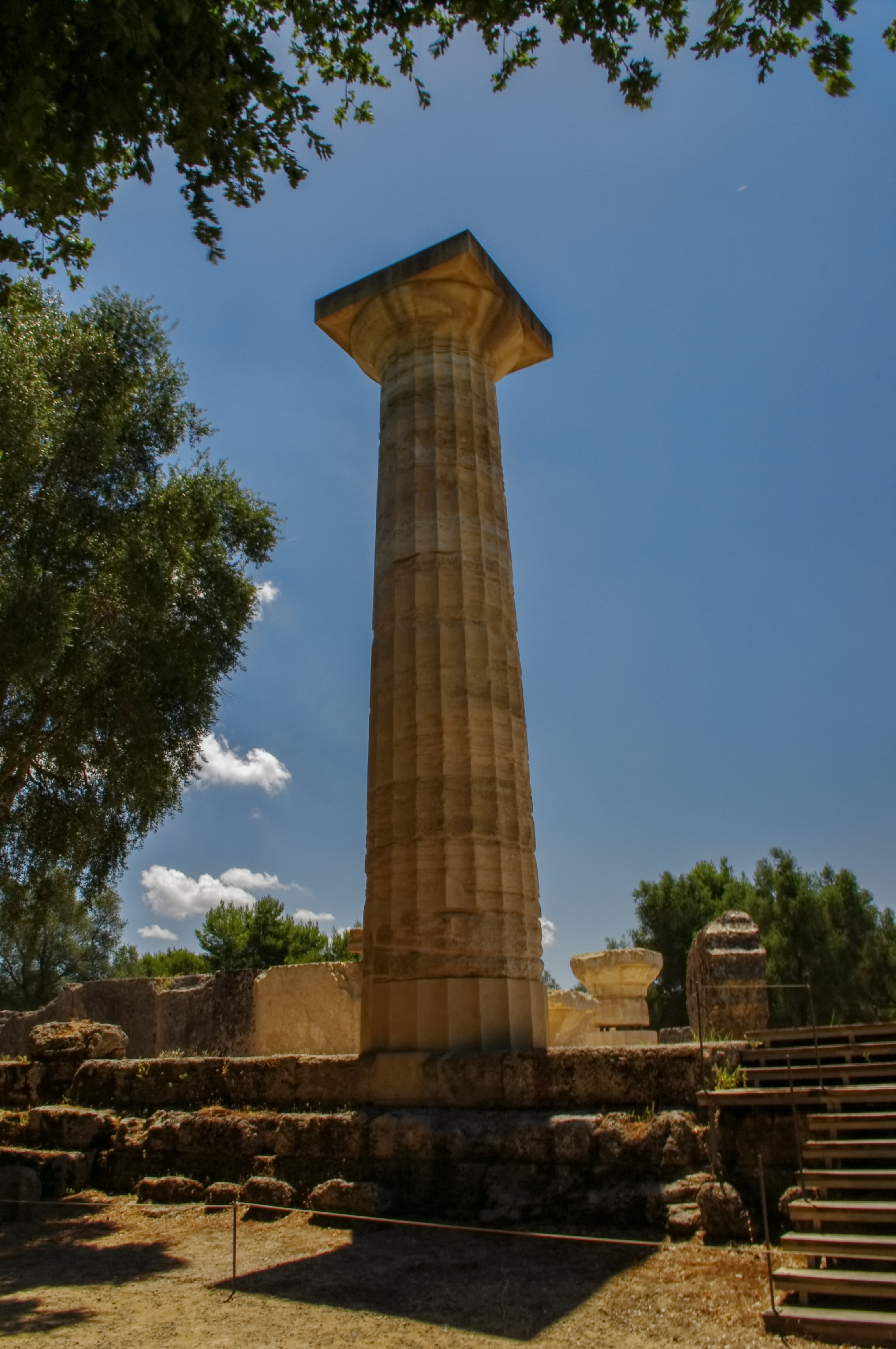 Temple of Zeus at Olympia (Doric column)«Ναός του Δία στην Ολυμπία»